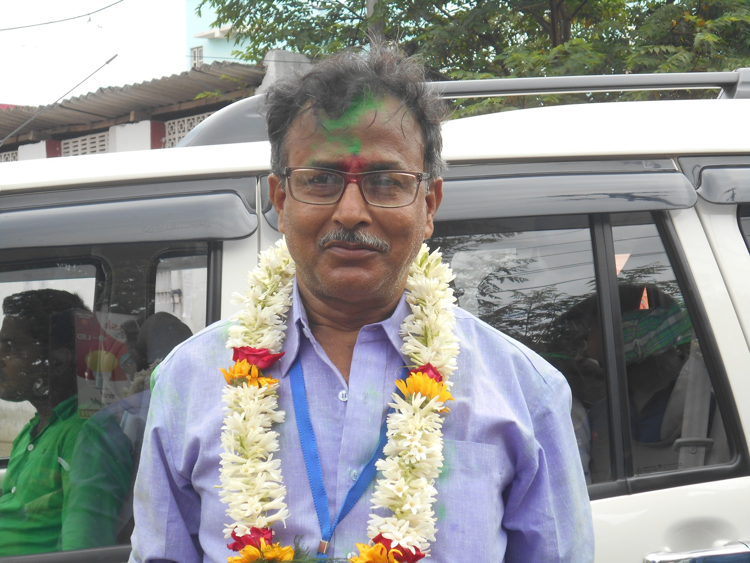 Nanti Da after victory